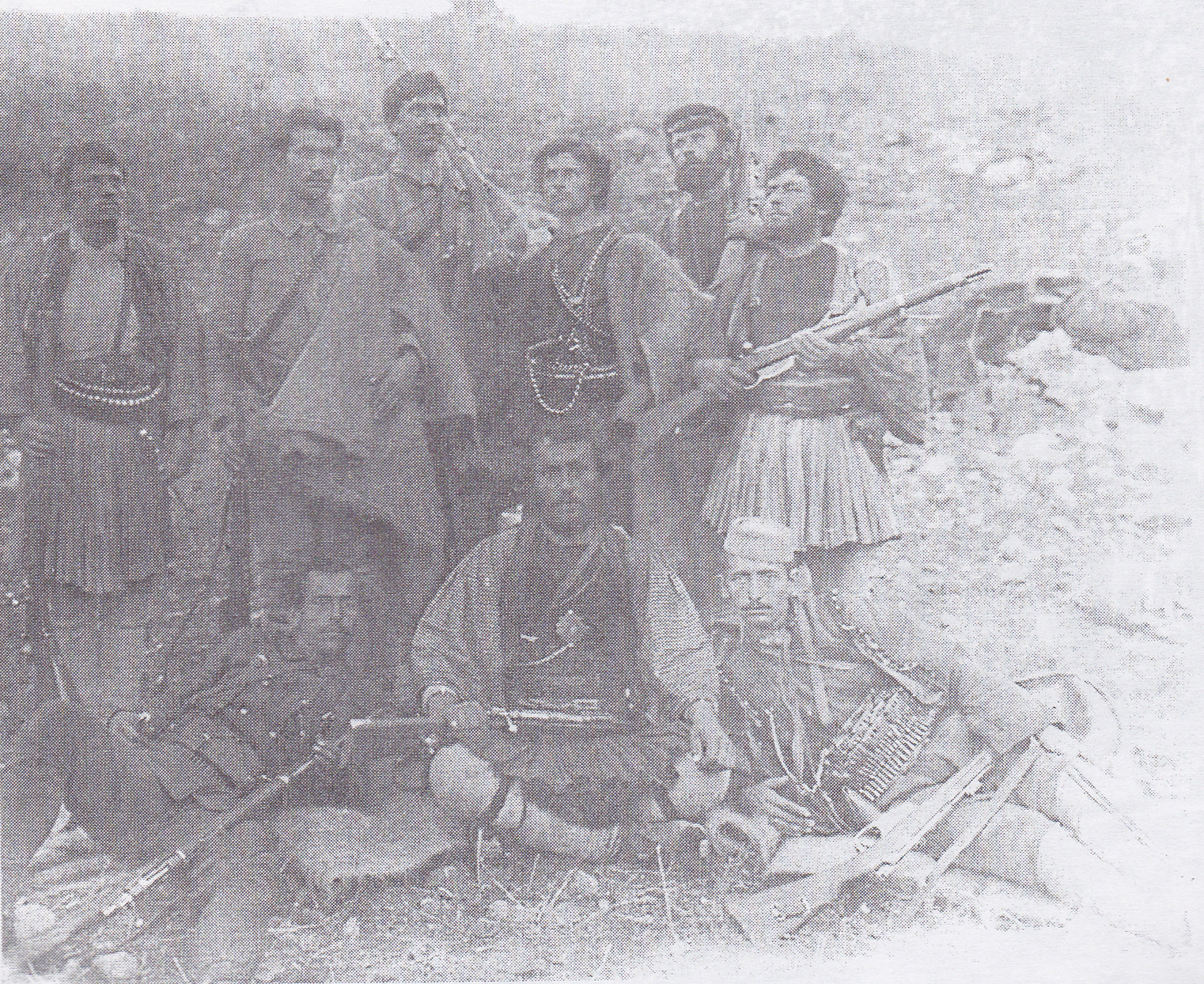 revolutionaries from Bulgaria, picture taken in Kosinets